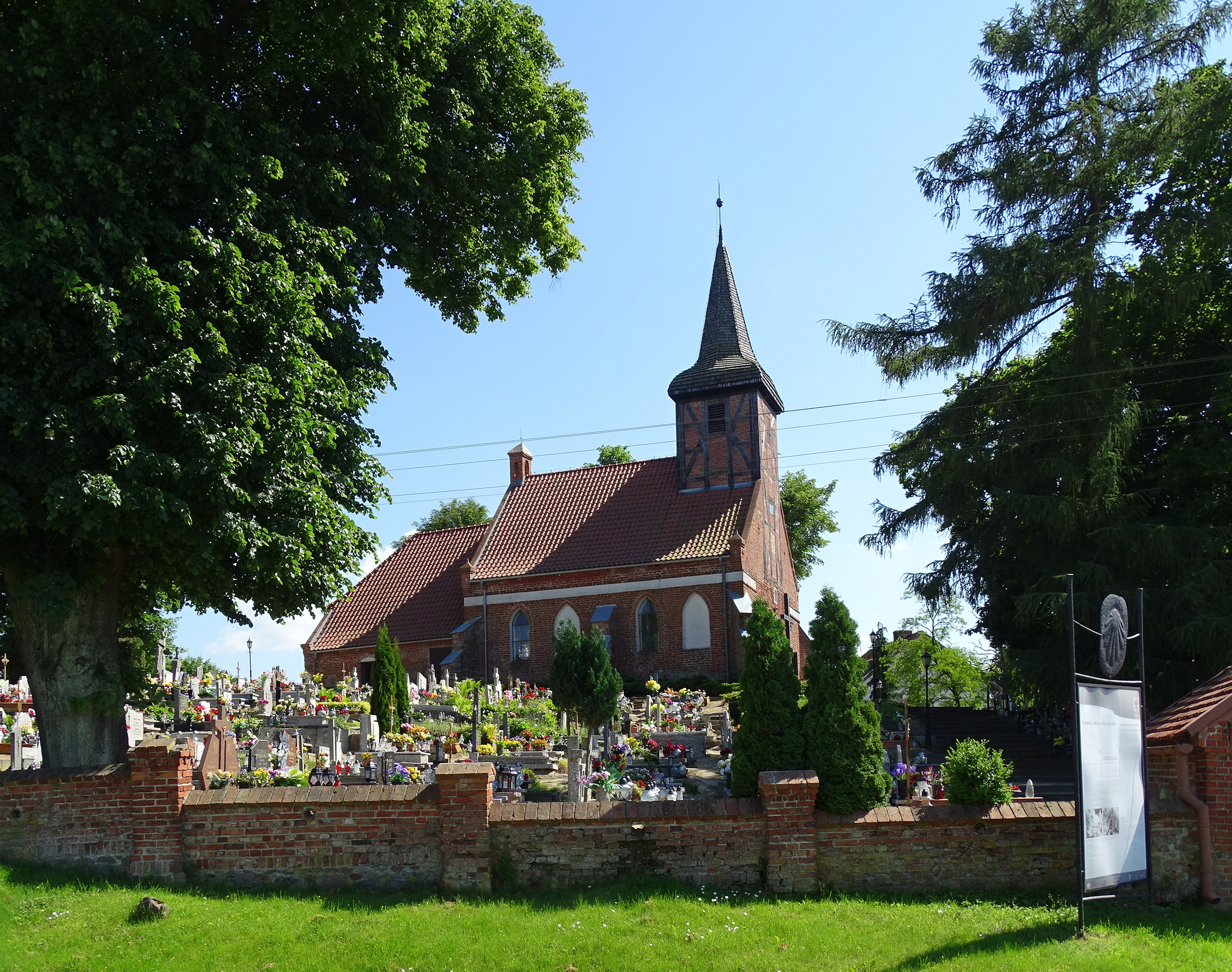 Dzierżążno, Tczew County, Pomerania, Poland. Church of Saint Jacob. Erected in the XIV century, rebuilt in the XVI, XVIII and XIX.